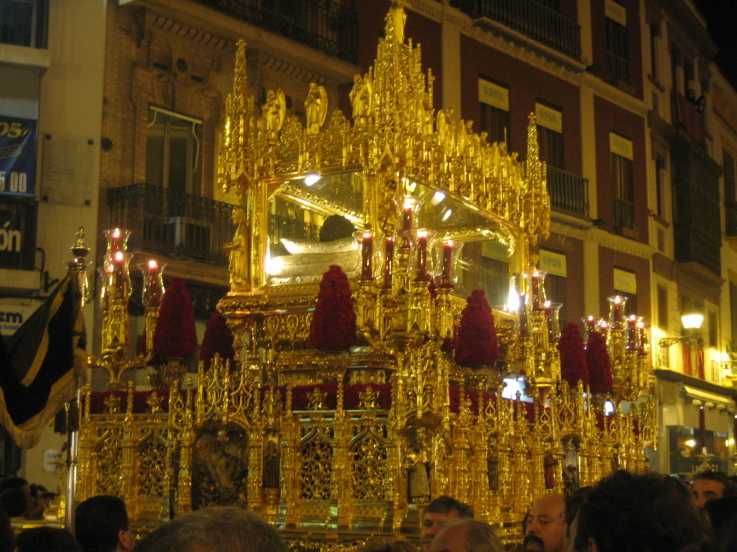 semana santa en sevilla